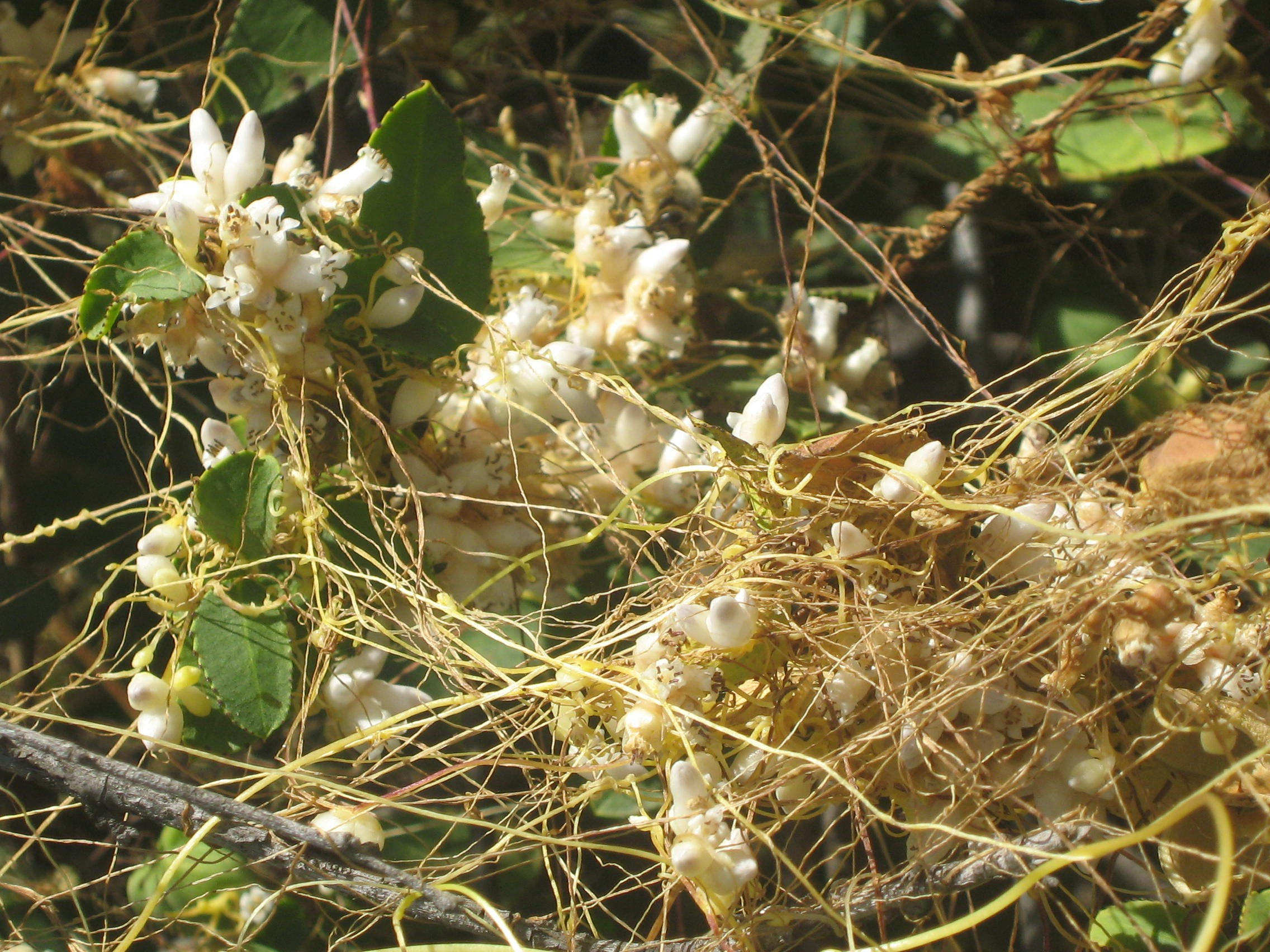 Cuscuta chilensis. Pirque, RM Chile